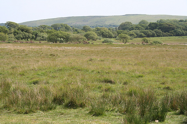 Llanrhidian Lower Community: towards Little Bryngwyn. Looking south east from a point near Broad Pool. The Cefn Bryn ridge is on the skyline. Lapwing and Snipe nest on the moor in the summer; the Short-eared Owl, Hen Harrier and Merlin have been noted here in winter